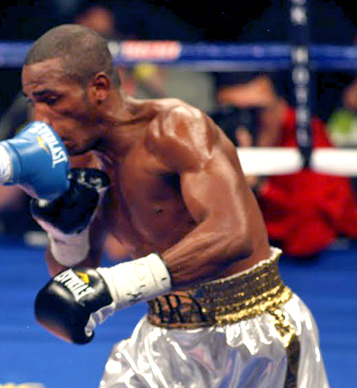 Erislandy Lara fighting against Grady Brewer at the Hard Rock Hotel and Casino on January 29, 2010.